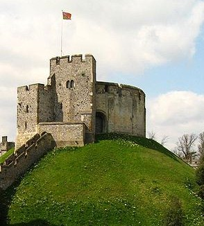 Arundel Castle - motte and quadrangle Photo taken by Luke van Grieken on 18 April 2006 using a Canon IXUS 750 camera. Additional castles images available at